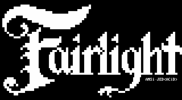 logo of the demo and warez group Fairlight The artist drew it as a white on black, don't change the color scheme. Zokum 10:53, 15 April 2007 (UTC) Inverted it and made a transparent background notwist 12:09, 4 January 2007 (UTC) Description: Fairlight logo created by JED of ACiD. Captured from MS-DOS. Note: Although this image originally contained no color information (other than a bright white ( 0;1m) attribute), this was saved as in ANSI to prevent screen wrapping at the 80th column. (The cross of the "t" in Fairlight draws on the 80th column and would ordinarily cause screen wrapping if it were saved in plain ASCII and viewed on a standard IBM PC running MS-DOS.) ASCII source (ANSI X3.64 escape codes stripped): ÜÜÜÛÛÛÛÜÜÜ ÜÜÜÛ ÜÛÛÛÛÛÛÛÛÛÛÛÛÛÛÛÛÜÜÜ ÜÜÜÜÛÛÛÛÛ ÛÛÛÛÛßßßÛÛÛÛÛÛÛÛÛÛÛÛÛÛÛÛÛÛÛÛÛÛÛÛÛÛÛÛ ÛÛÛß ßßÛÛÛÛÛÛÛÛÛÛÛÛÛÛÛÛÛÛÛÛÛÛß ÛÛ ÜÛÜ ßßÛÛÛÛÛÛÛÛÛÛÛÛÛÛßß Û ßÛÝ ÜÛ ßßßßßßßßß ßÜÜ ÜÛßÜÜÛÛÛ Ü ÜÛ Ü ÜÛ ÜÛ ßßß ÛÛÛÛ ÜÜÜÜÜÜÜÛ ÜÛÛ ÜÛÛÛ ÜÛÛ ÜÛÛÛ ÜÛÛÛ ÜÜÛÛÛÛÜÛÛÛÛÛÛÛÛß ß ÛÛÛ ß ÛÛÛ Ü ÛÛÛ ÜßßÛÛÛÛÛÛßßßßßßßÜÜ Ü ÜÛ ÜÛ ÜÛÜßÛÛ ÜÛ ÜÜ Ü ÛÛÛ ÜÜ ÛÛÛÛÛÛÛÛÜ ÜÜÛÛÛÛ ÜÛß ßÛÜÛ ÜÛÛÛ ÜÛÛÛÛßßÛßÜÛ ÜÛÛÛ ÜÛß ßÛÜÛ ÛÛÛÜÛßÛÛ ßßÛÛÛßßÛ ÜßßÛÛÛÛÛ ÞÛÛ ÛÛÛ ÛÛÛ ÛÛÛ ÛÛÛ ÛÛÛ ÞÛÛ ÛÛÛ ÛÛÛß ÛÛ ÛÛÛ ÛÛÛÛ ÞÛÛ ÛÛÛ ÛÛÛ ÛÛÛ ÛÛÛ ÛÛÛ ÞÛÛ ÛÛÛ ÛÛÛ ÛÛ ÛÛÛ ÜÜÛÛÛÛ ÞÛÛÝ ÛÛÛ ÜÛÛÛ ÛÛÛ ÛÛÛ ÛÛÛ ÞÛÛÝ ÛÛÛ ÛÛÛ ÛÛ ÛÛÛ ÜßßÛÛÛÛÛÝ ßÛÛÜÛßÛÛÛßÛÛÛ ÛÛÛ ÛÛÛ ÛÛÛ ßÛÛÜÛÛÛÛ ÛÛÛ ÛÛ ÛÛÛ ÛÛÛÛÛÜ ß ß ßßßßßßßßßß ßßßßßßßßßß ß ÛÛÛßßßßß ßßßß ßßßßß ÜÛÛÛÜ ÛÛÛÛÛÛÛÛÜÜÜ ÞÛÛÝ ANSiúJED ÞÛßÛÛßÜ ÜÛÛÛÛÛÛÛßß ÜÛÛß ßÛÜ ÜÜÛÛÛÛßß ÜÜÛÛÛÜÜÜ ÜÜßß ßßÛÛßßß ßÛß Ûß ßßß ß